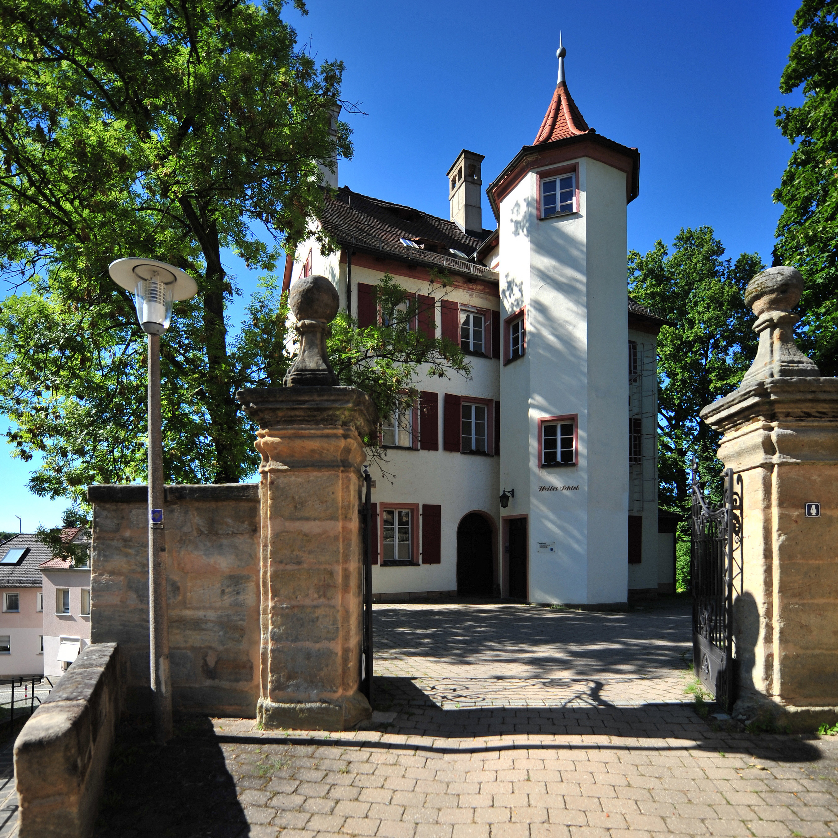 Heroldsberg: Weißes Schloss This is a photograph of an architectural monument.